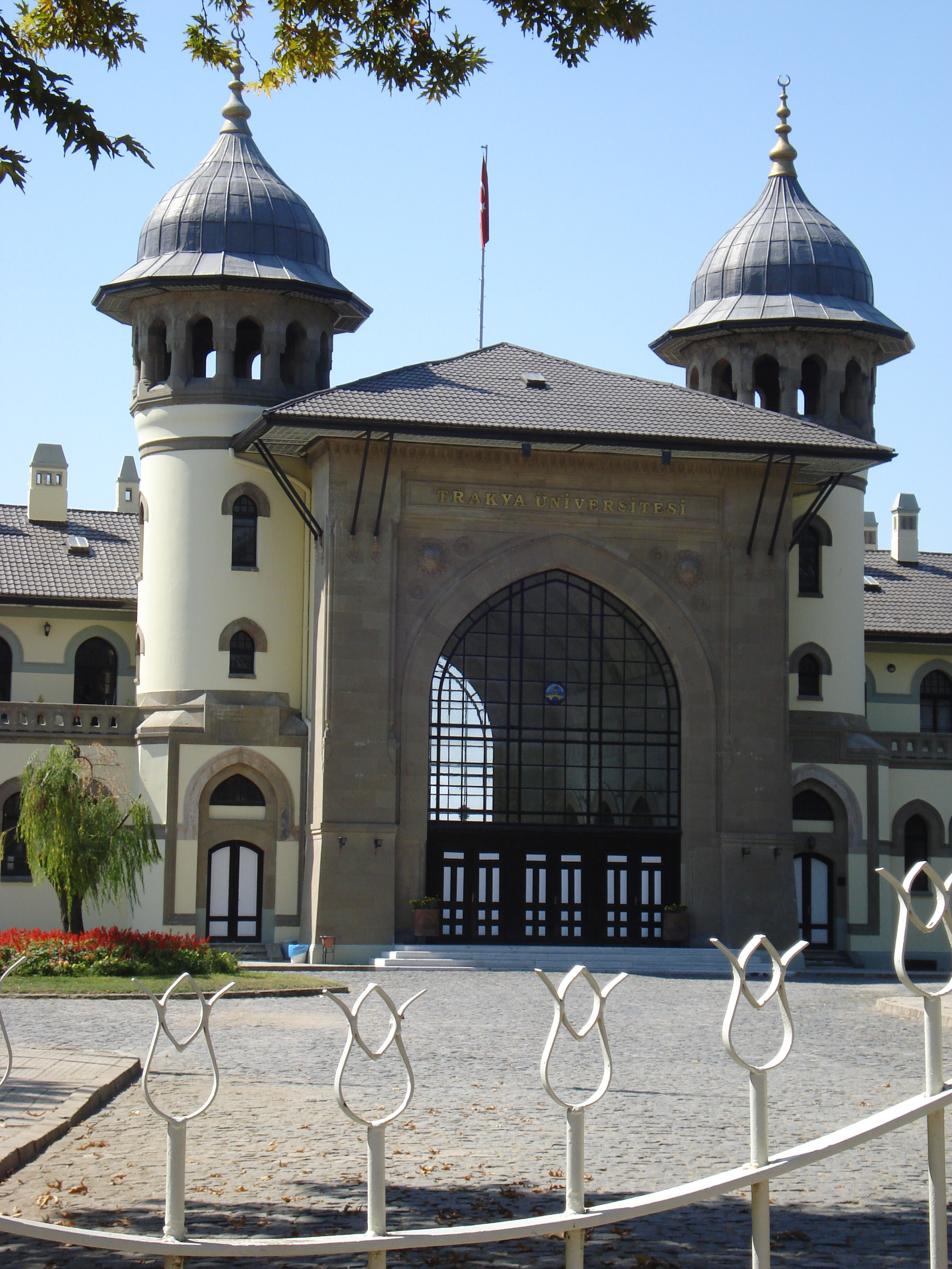 Trakya University Rectorship Building in Karaağaç, Edirne - Turkey.